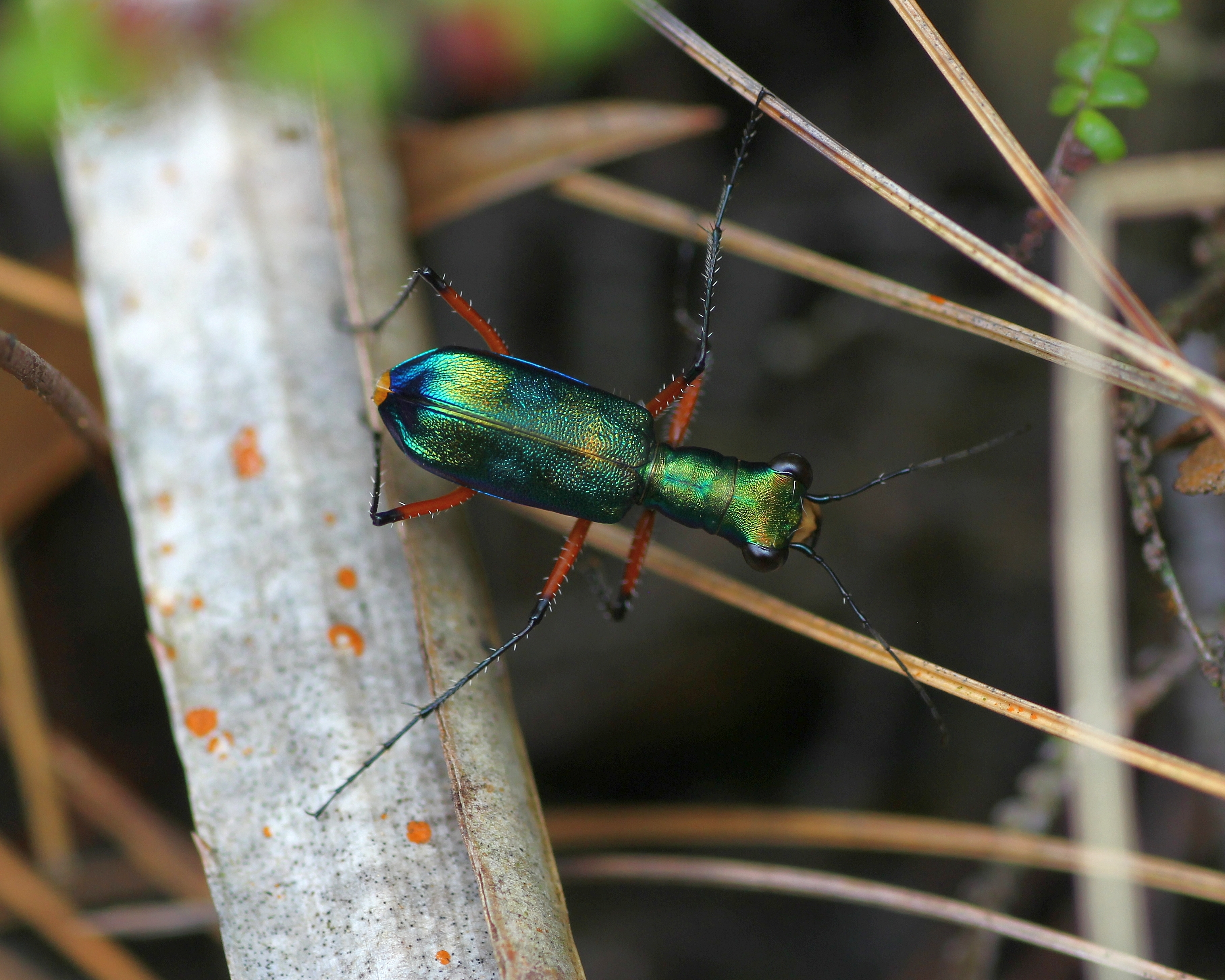 Insect at Gunung Belumut Recreational Forest/Hutan Lipur Gunung Berlumut